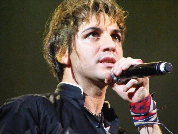 Mikelangelo Loconte november 7th, Paris, Grand Rex.